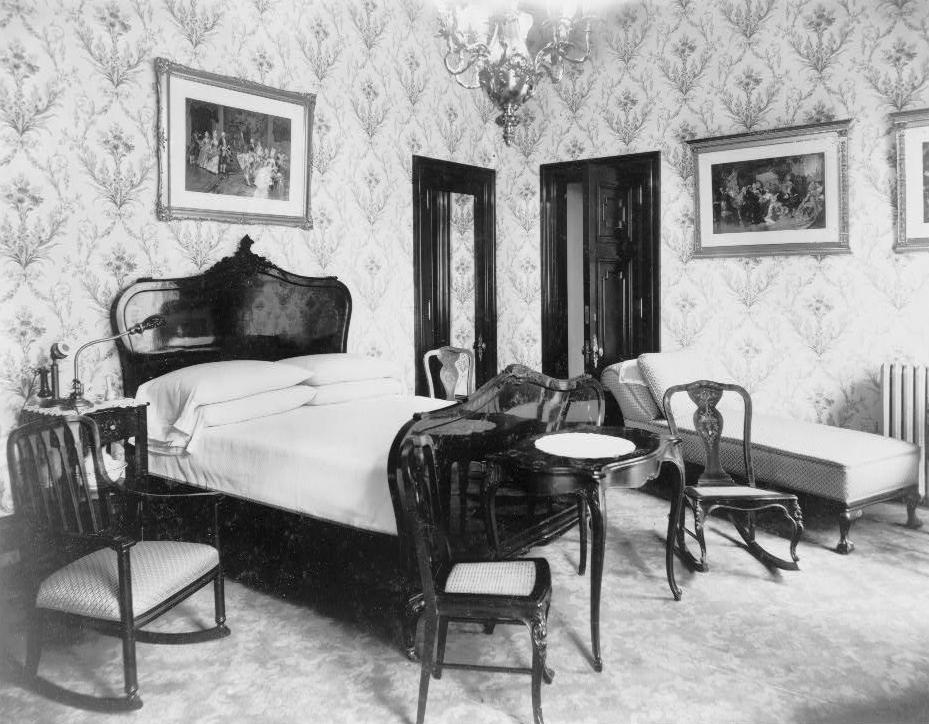 Photograph by William H. Rau showing a bedroom in the Hotel Bellevue-Stratford in Philadelphia, circa 1905.